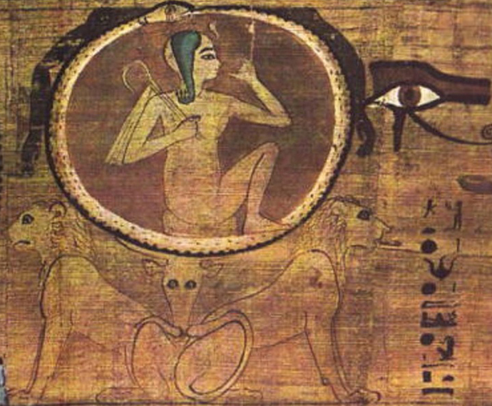 Horus the Child within the sun disc resting upon the Akhet lions, surrounded by an ouroboros.